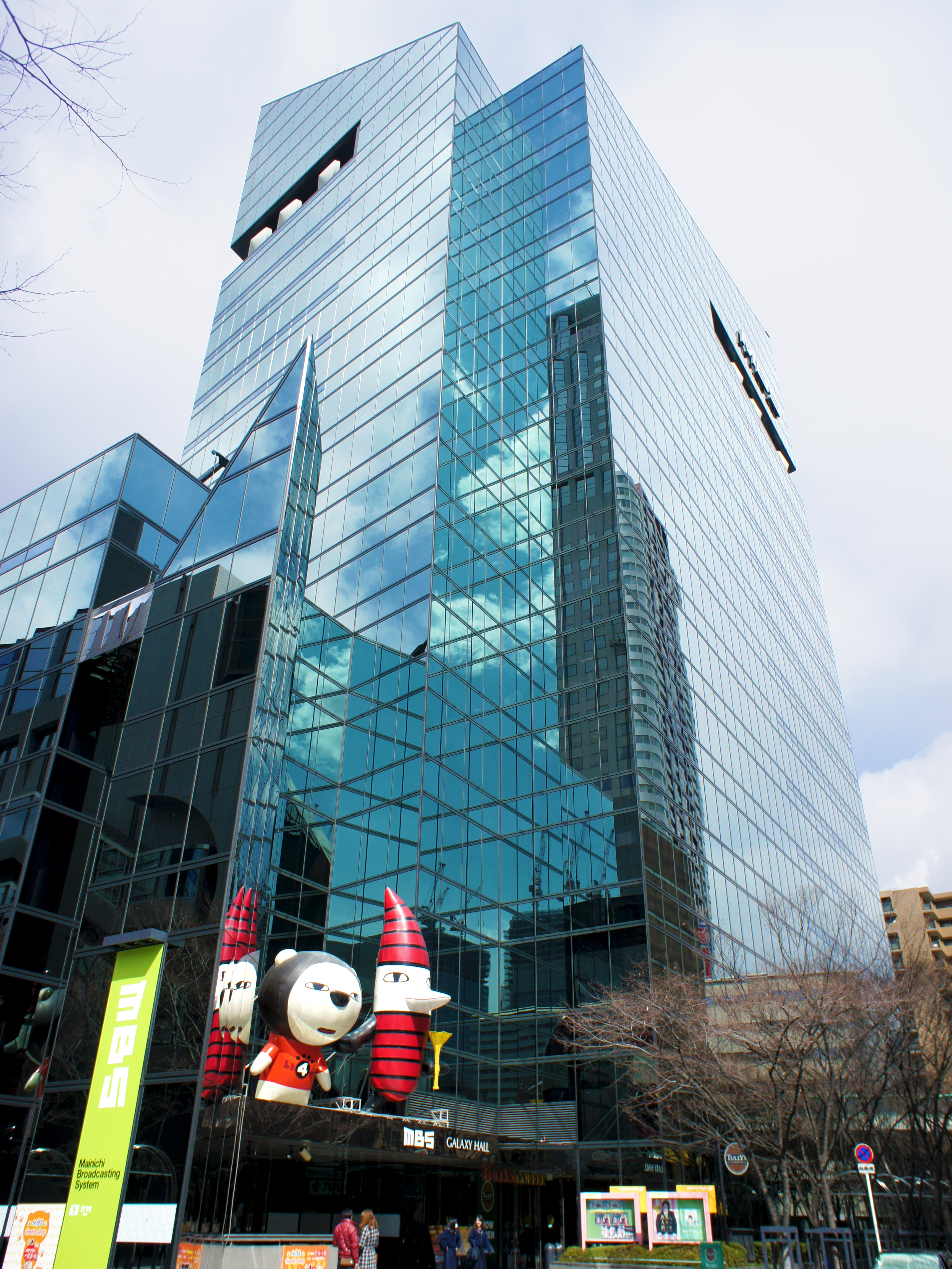 Mainichi Broadcasting System Headquarters, 17-1 Cahyamachi Kita-ku Osaka-City Kyoto Japan.